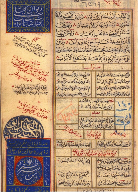 Page from the manuscript of Saib Tebrizi poems in Azerbaijani